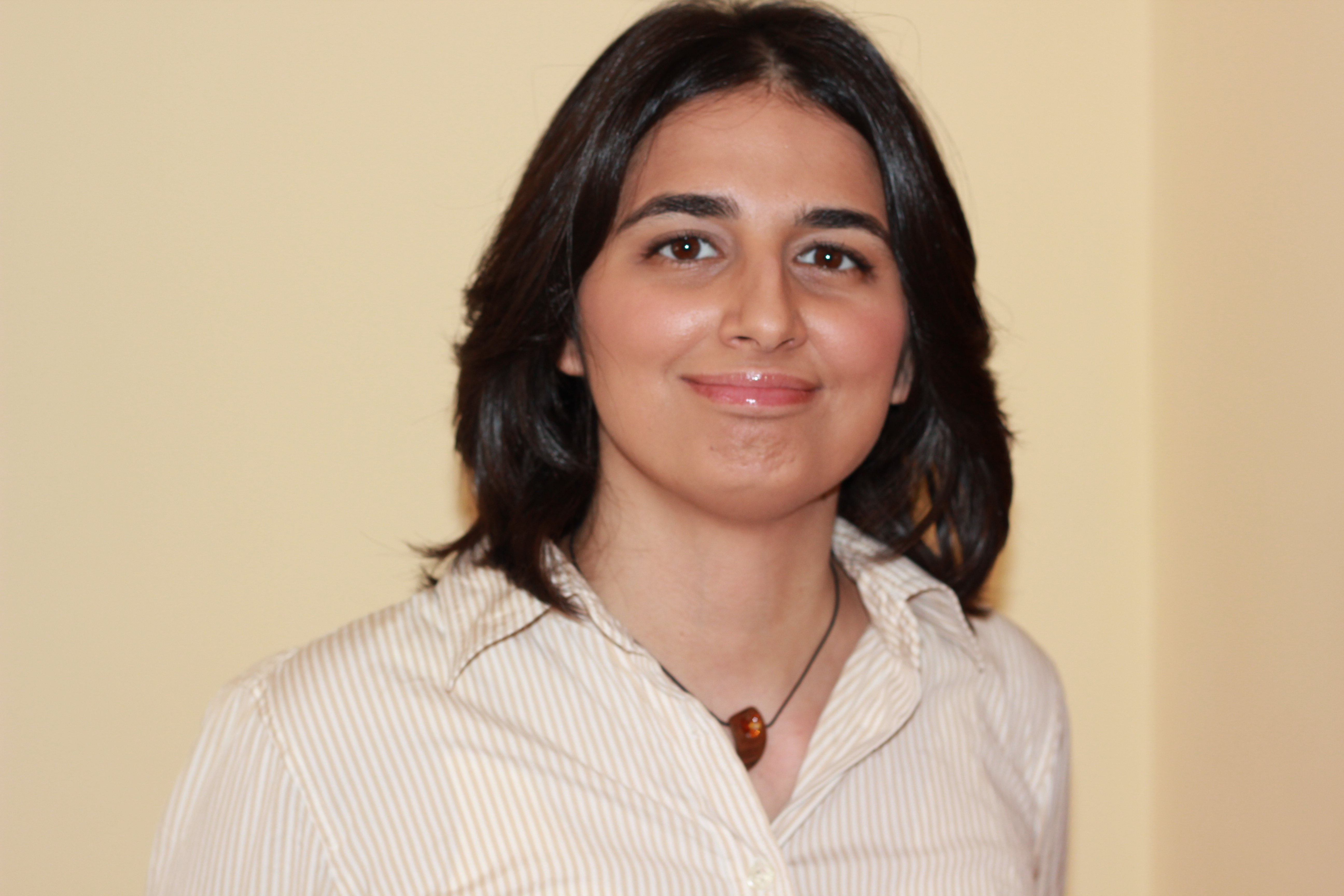 WMF Board member